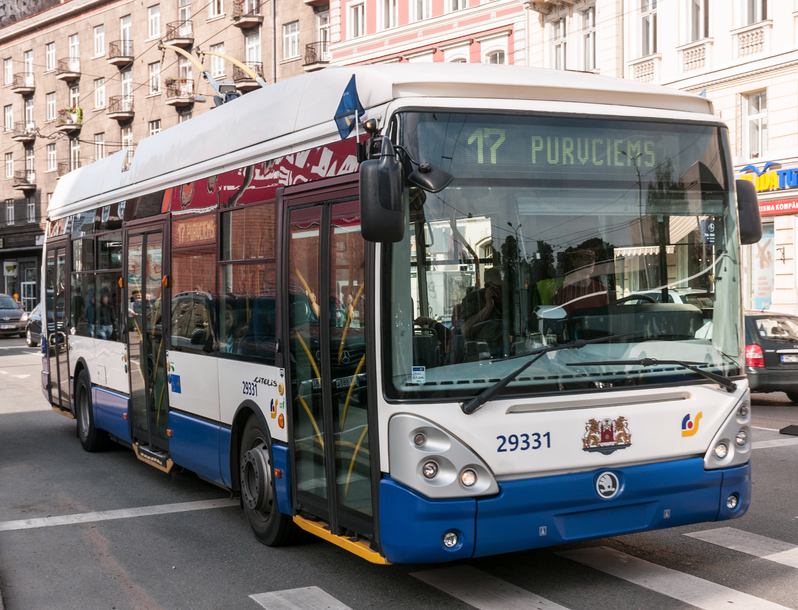 Škoda 24Tr Irisbus in Riga, Latvia